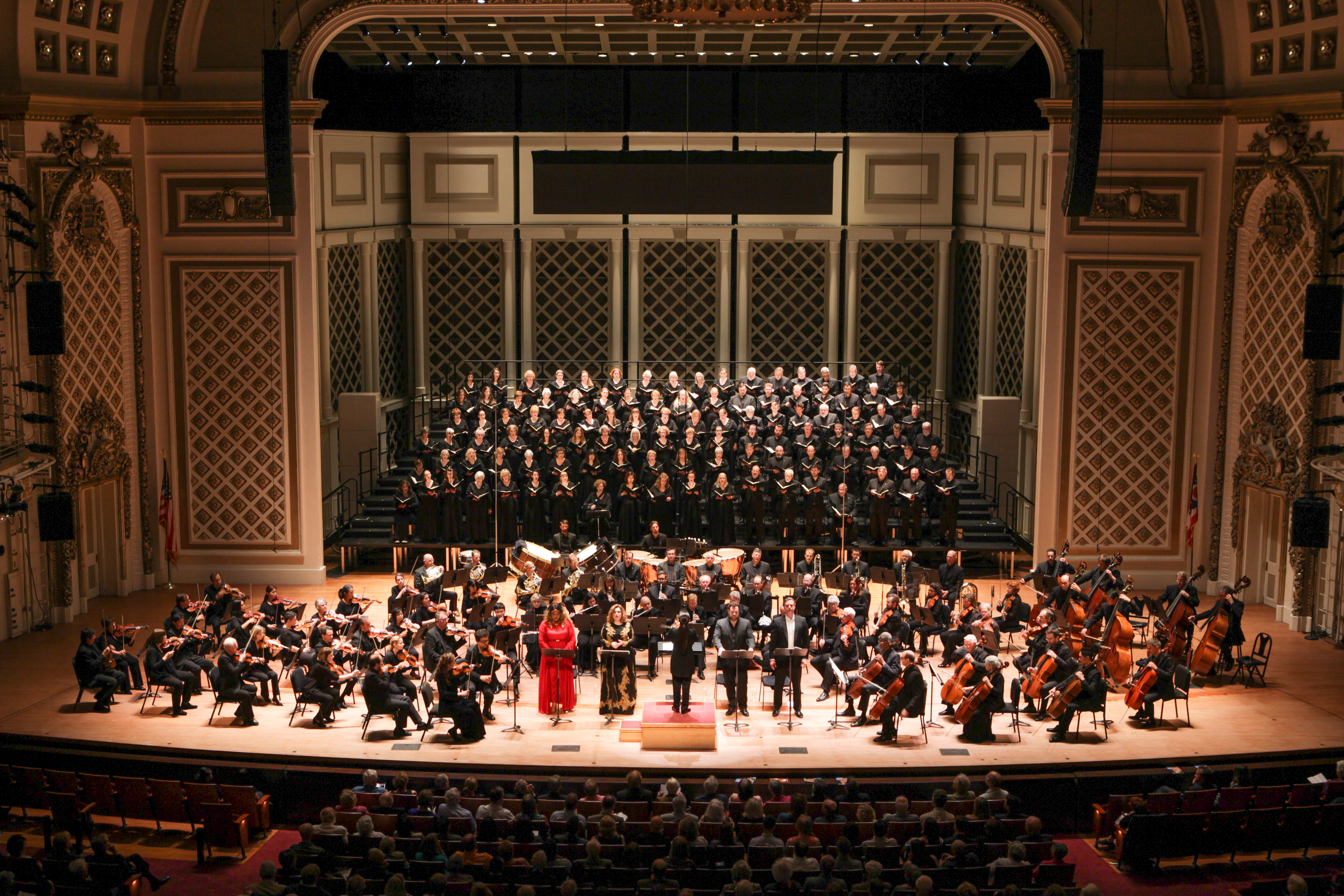 May Festival Chorus and Cincinnati Symphony Orchestra performing in Springer Auditorium at Cincinnati Music Hall